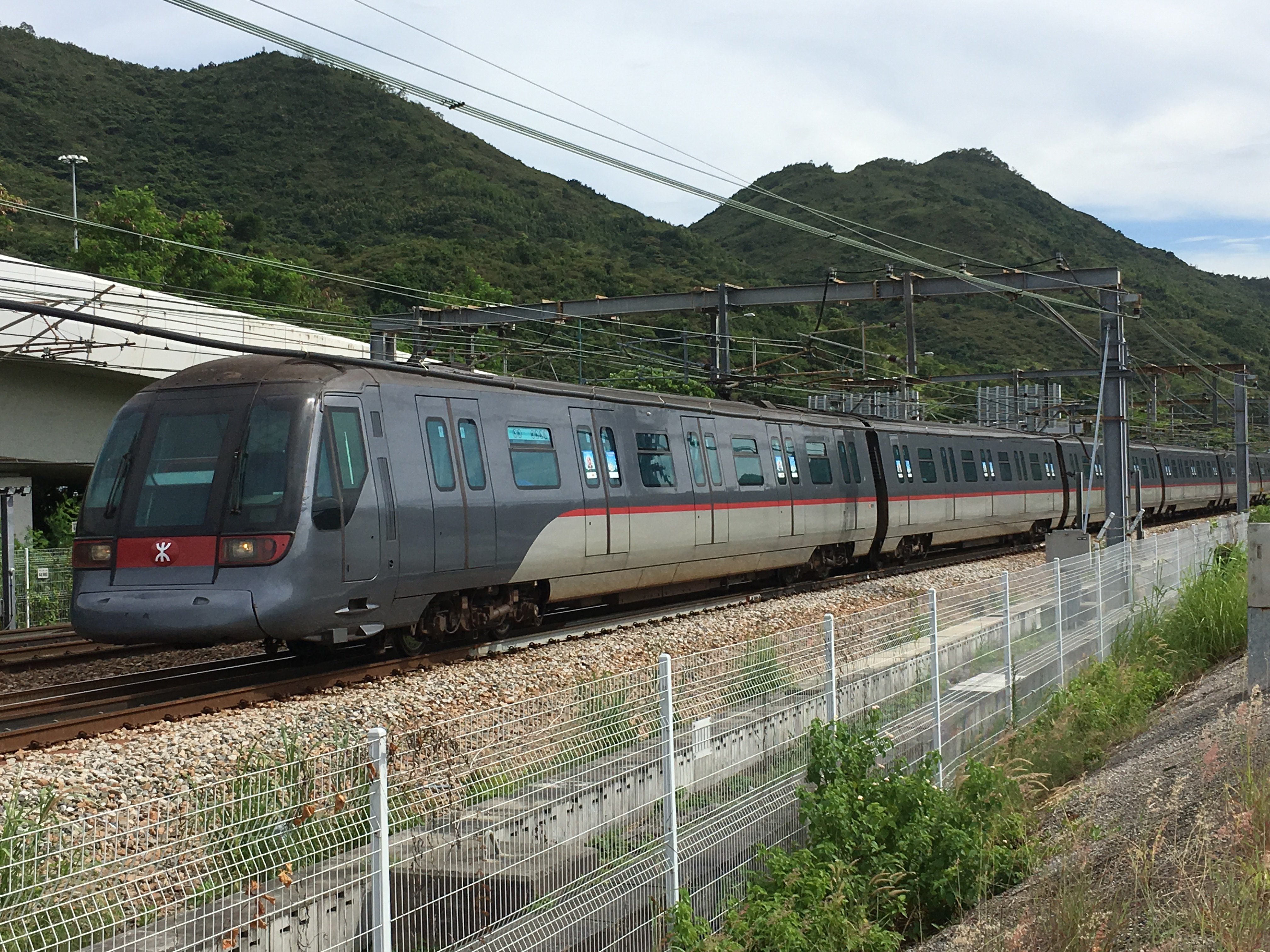 MTR Tung Chung line train taken near Sunny Bay station